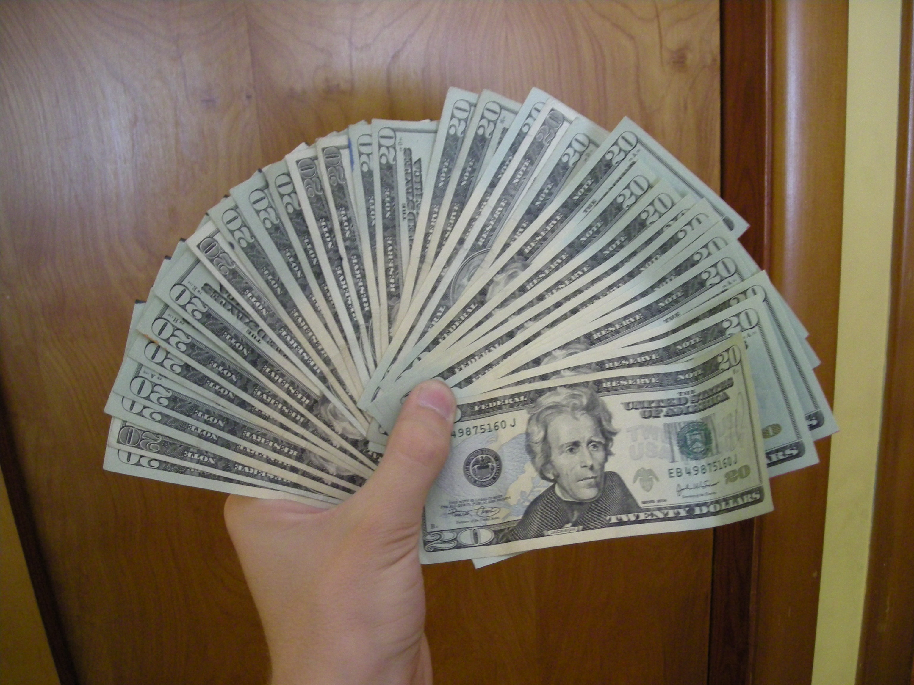 $620 in 31 twenty-dollar bills.